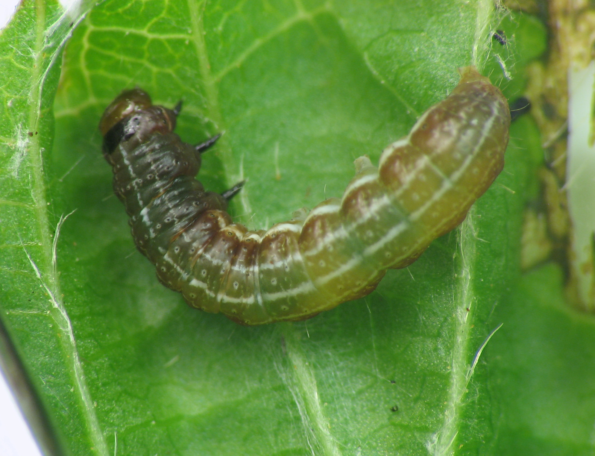 Caterpillar of noctuid moth, Eupsilia on Viburnum dentatum, early instar. Size: Size: 7-8 mm. Briar Bush Nature Center, Montgomery County, Pennsylvania, USA.